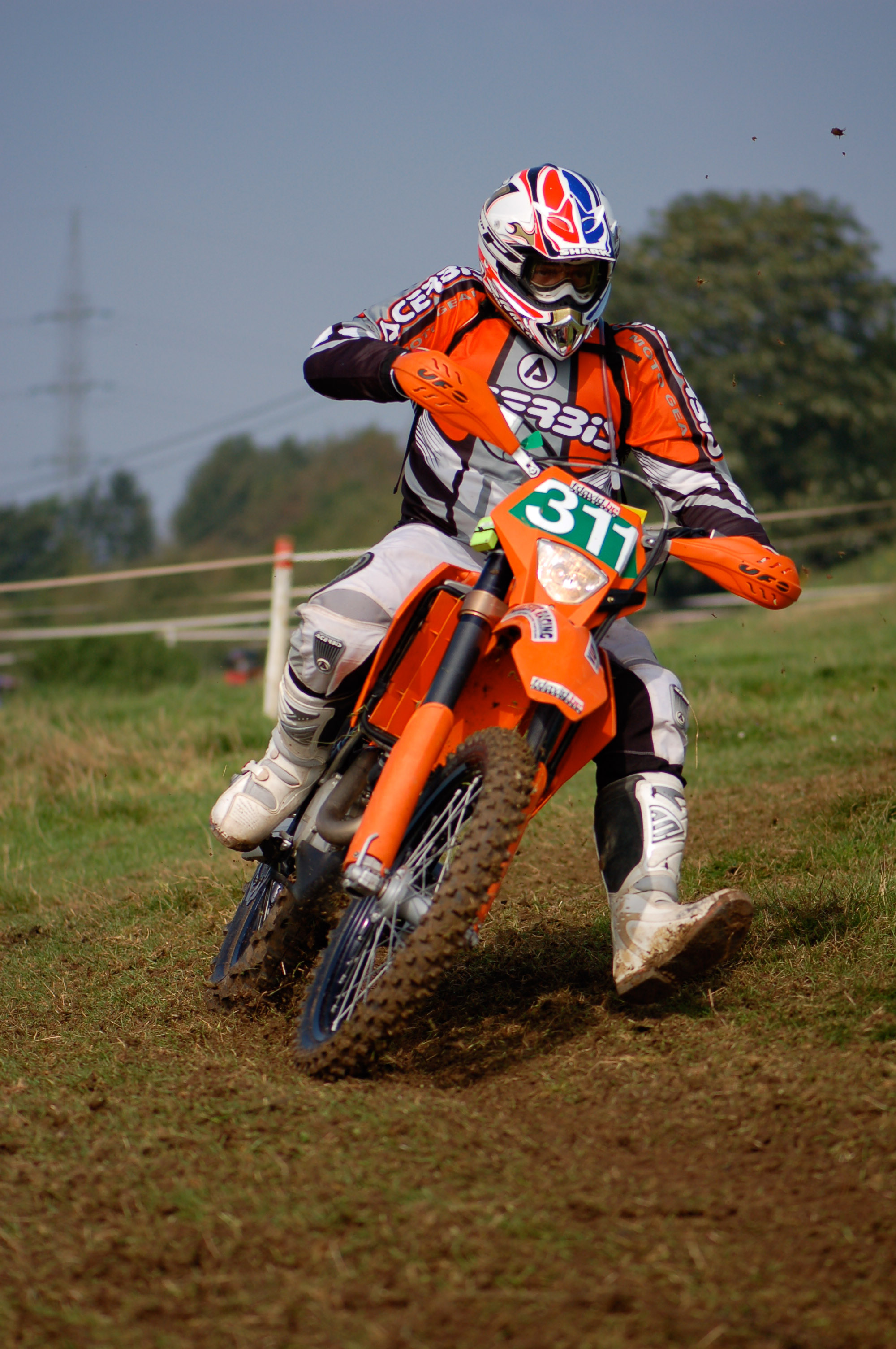 KTM 525 EXC Racing 2007